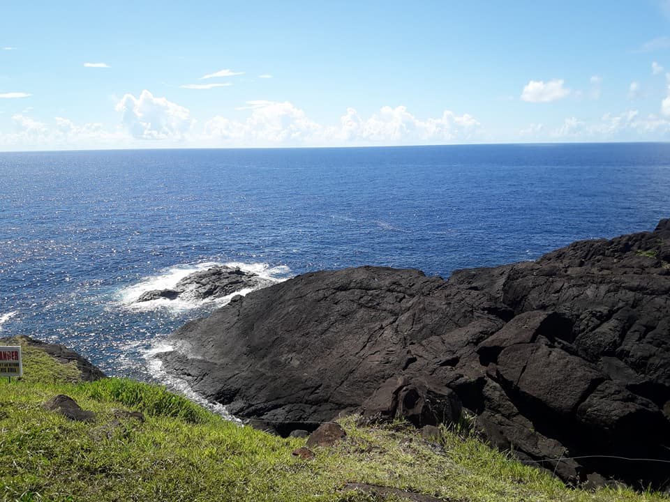 known as "Little Batanes" in Catanduanes